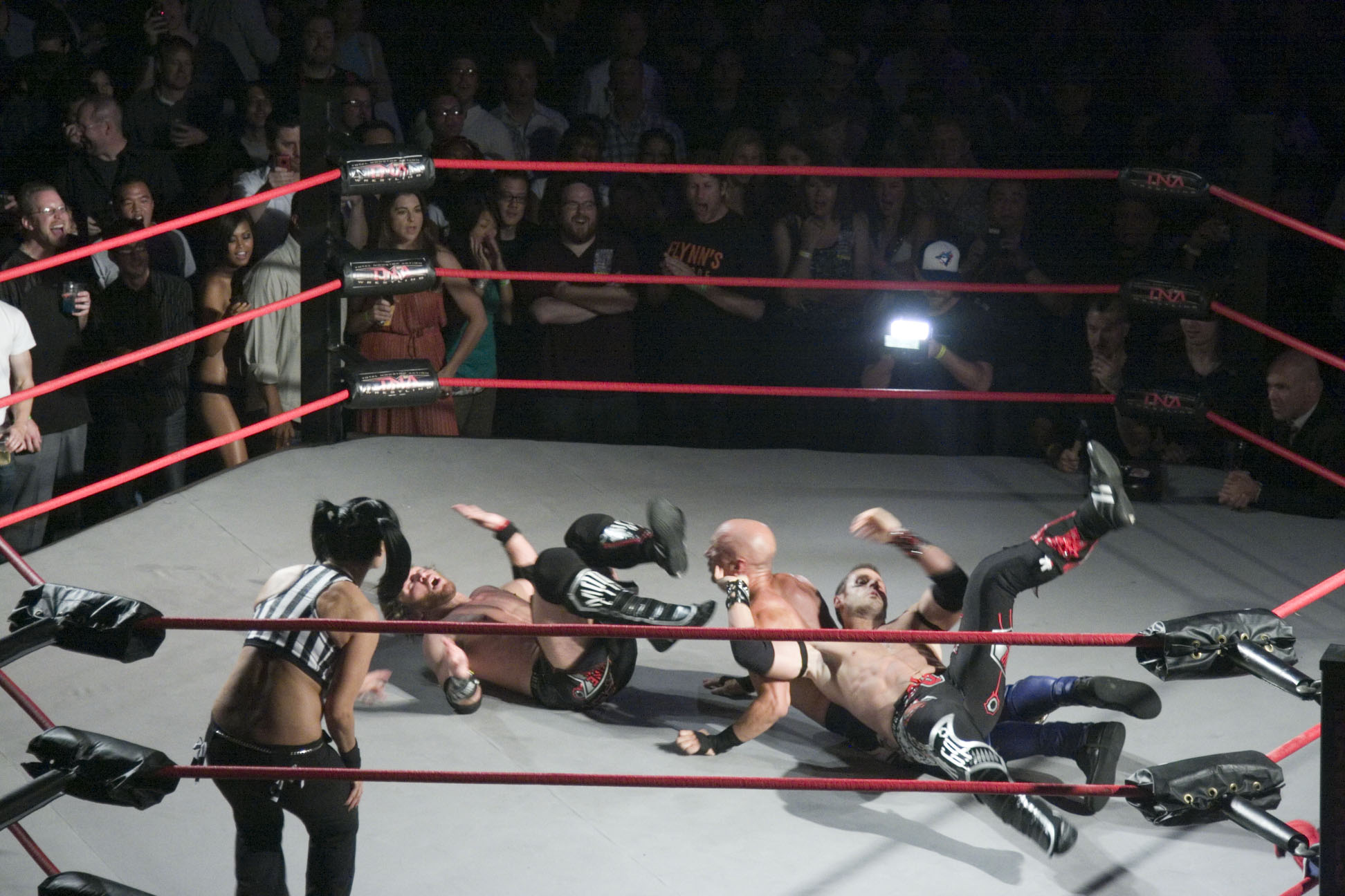 The Motor City Machineguns during a match.